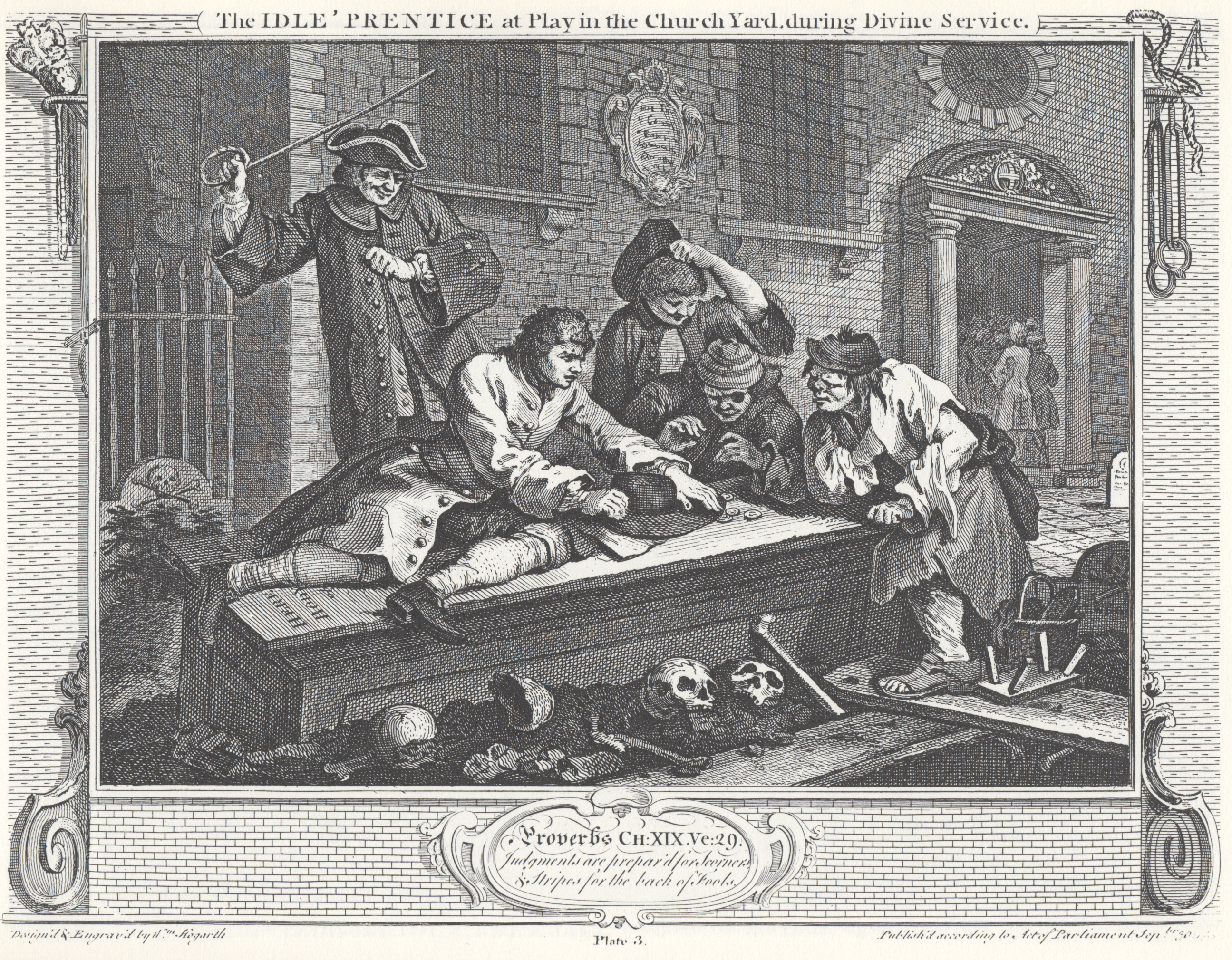 William Hogarth - Industry and Idleness, Plate 3; The Idle 'Prentice at Play in the Church Yard, during Divine Service